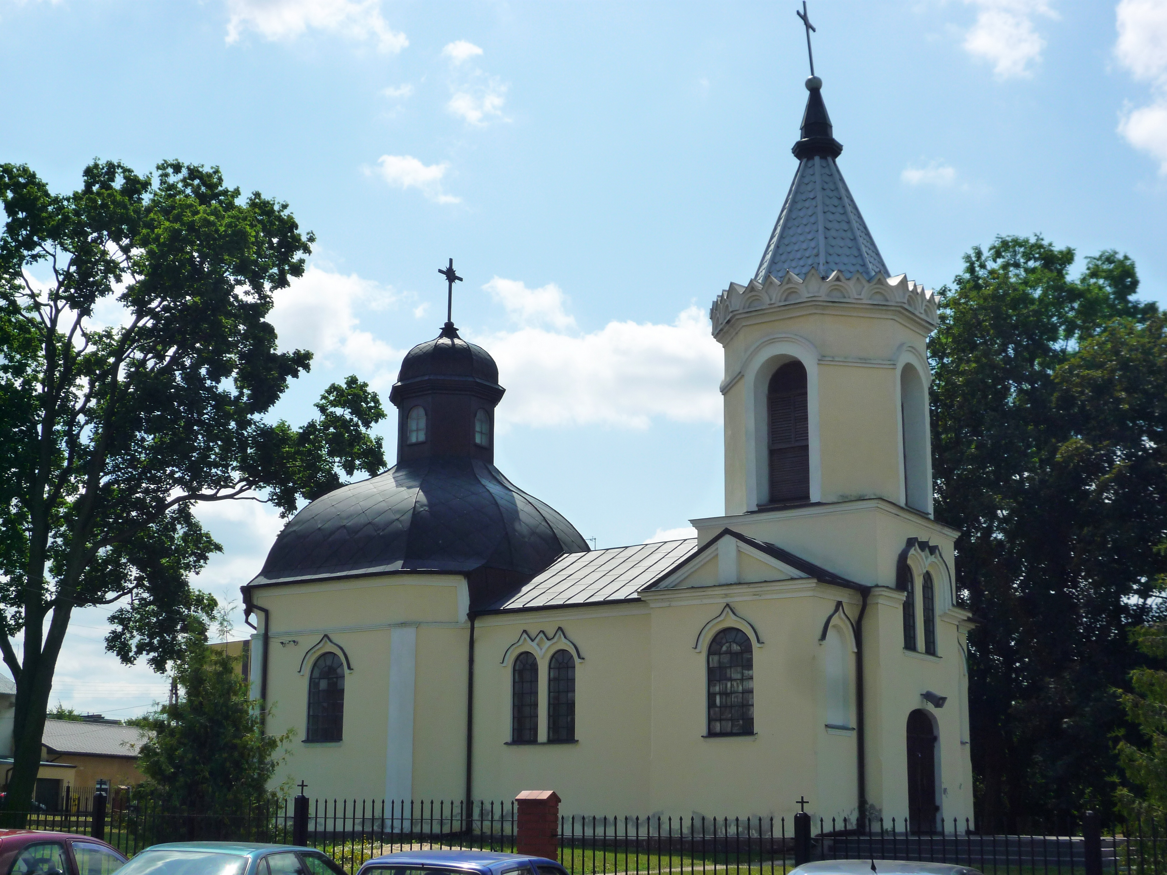 Ex-orthodox church, nowadays catholic church (secondary) of the Nativity of Our Lady in Wysokie Mazowieckie, Poland